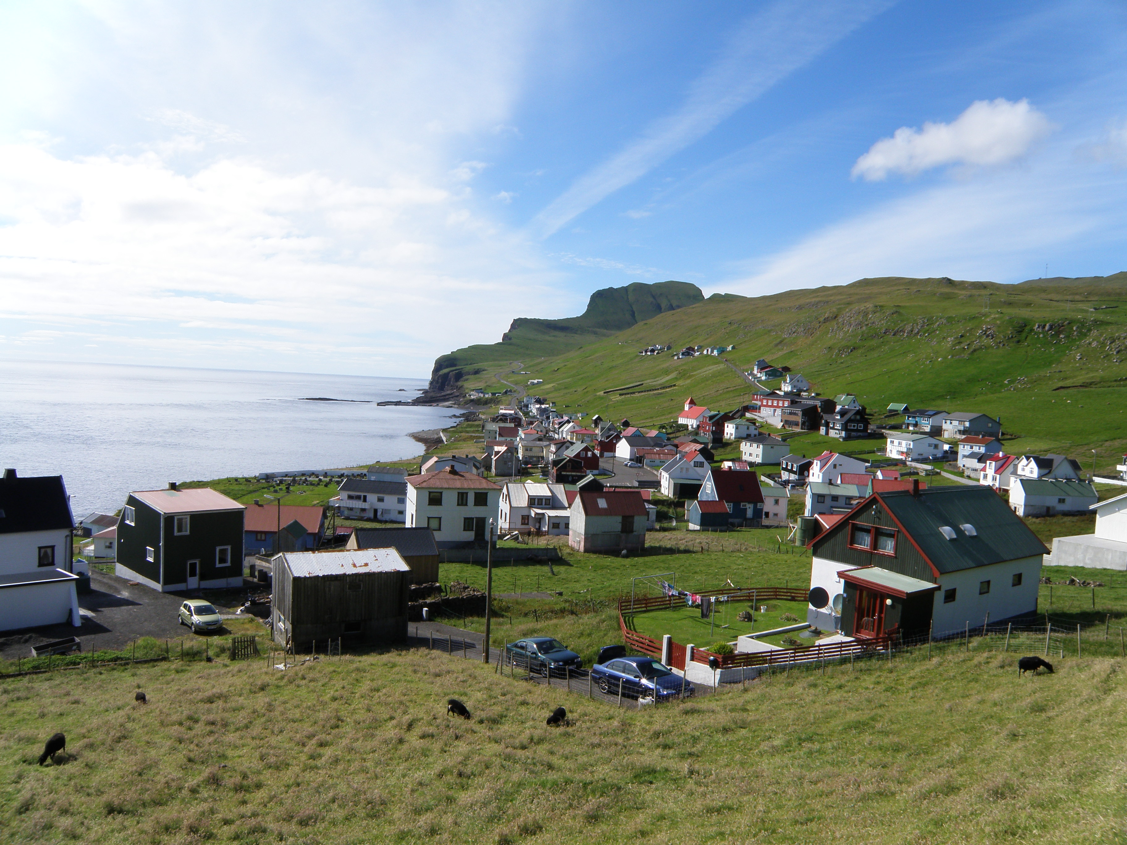 Sumba and Beinisvørð. Sumba is a village in Suðuroy, Faroe Islands. It is the southernmost village in the Faroe Islands. This is a summer photo, taken in July 2010. The mountain behind the village is called Beinisvørð, it is vertical cliff on the other side. Beinisvørð is 470 meter high, the second highest sea cliff in the Faroe Islands., Sumba, Faroe Islands.